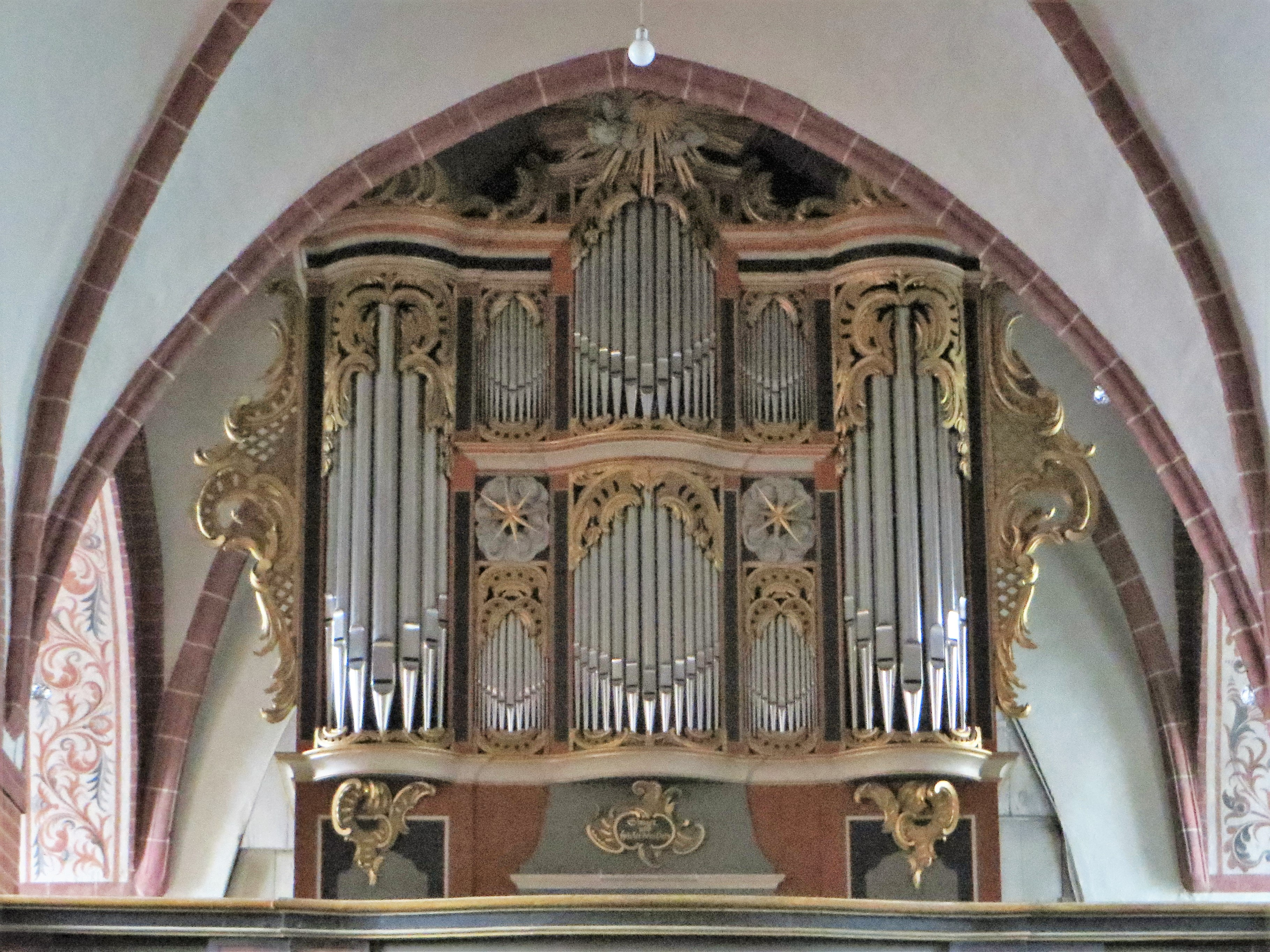 St.-Katharinenkirche Lenzen